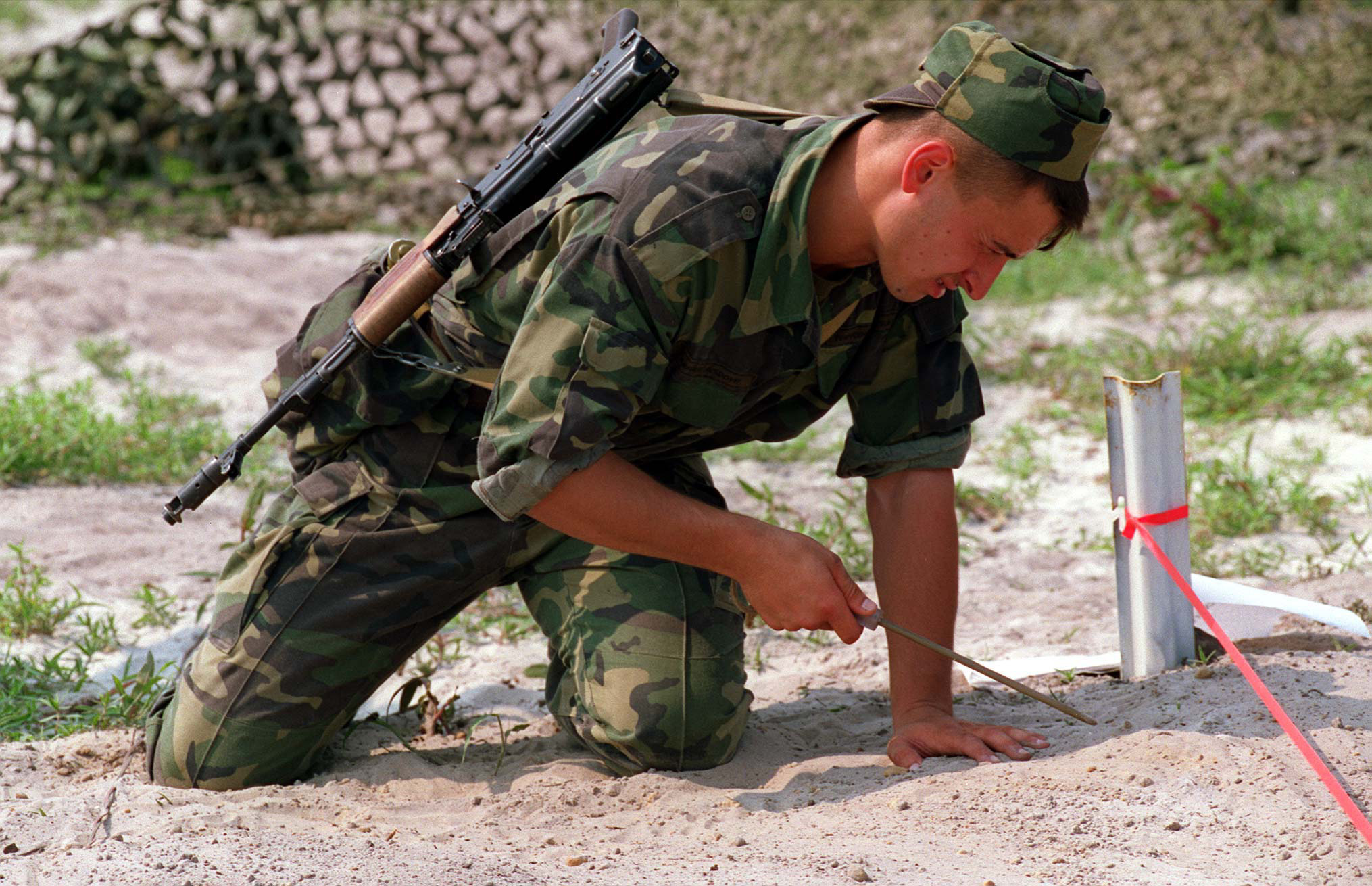 A Moldovan soldier probes for mines, during the practical application phase of a Situational Training Exercise on Mine Awareness at Camp Lejeune, N.C., on Aug. 18, 1996, as part of Cooperative Osprey '96. Cooperative Osprey '96 is a NATO sponsored exercise as part of the alliance's Partnership for Peace program. The aim of the exercise is to develop interoperability among the participating forces through practice in combined peacekeeping and humanitarian operations. Three NATO countries and 16 Partnership for Peace nations are taking part in the field training exercise.